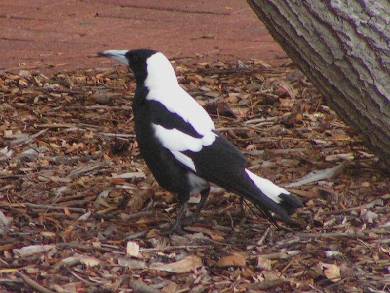 Western Magpie (Cracticus tibicen dorsalis), Perth, Western Australia